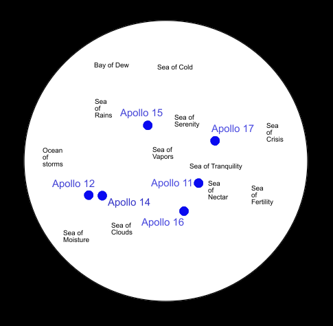 Map of the moon showing location of Project Apollo missions. I made the image using information from several maps.